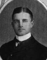 Portrait of New York state senator Spencer K. Warnick